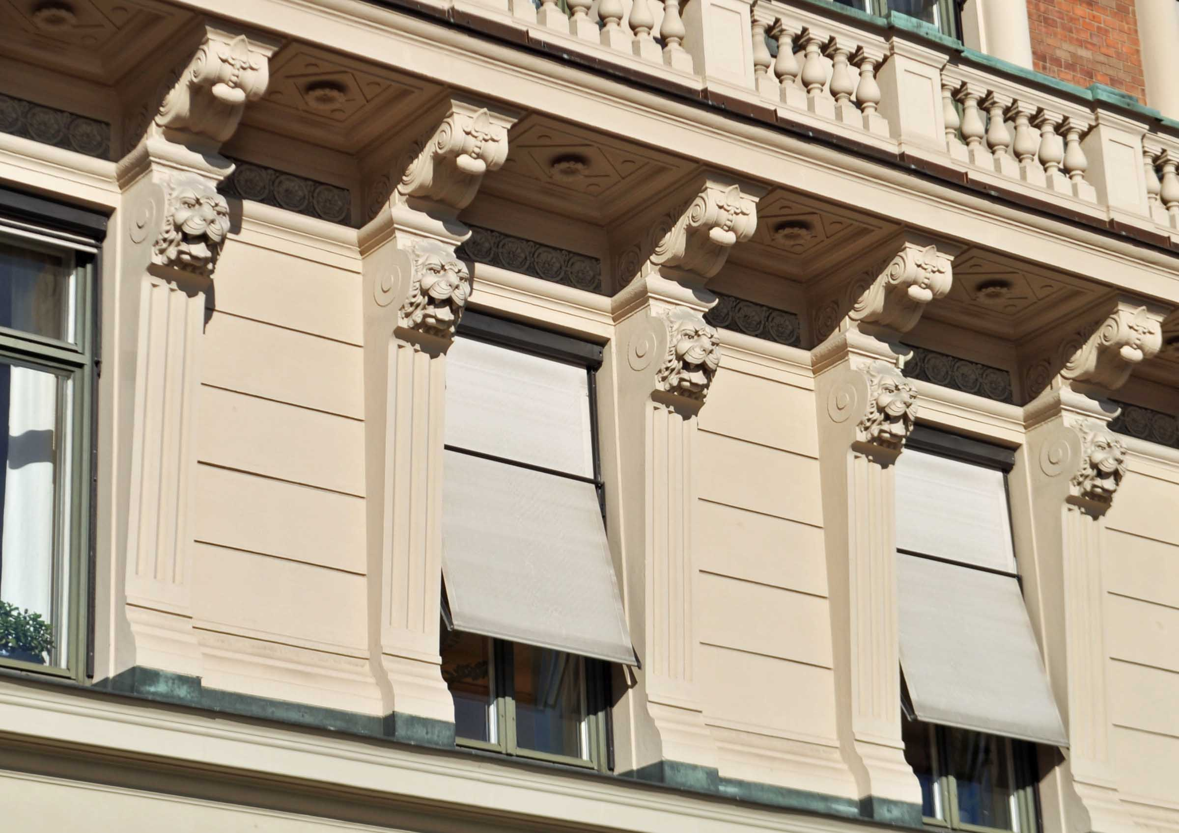 Palmeska huset detalj 2